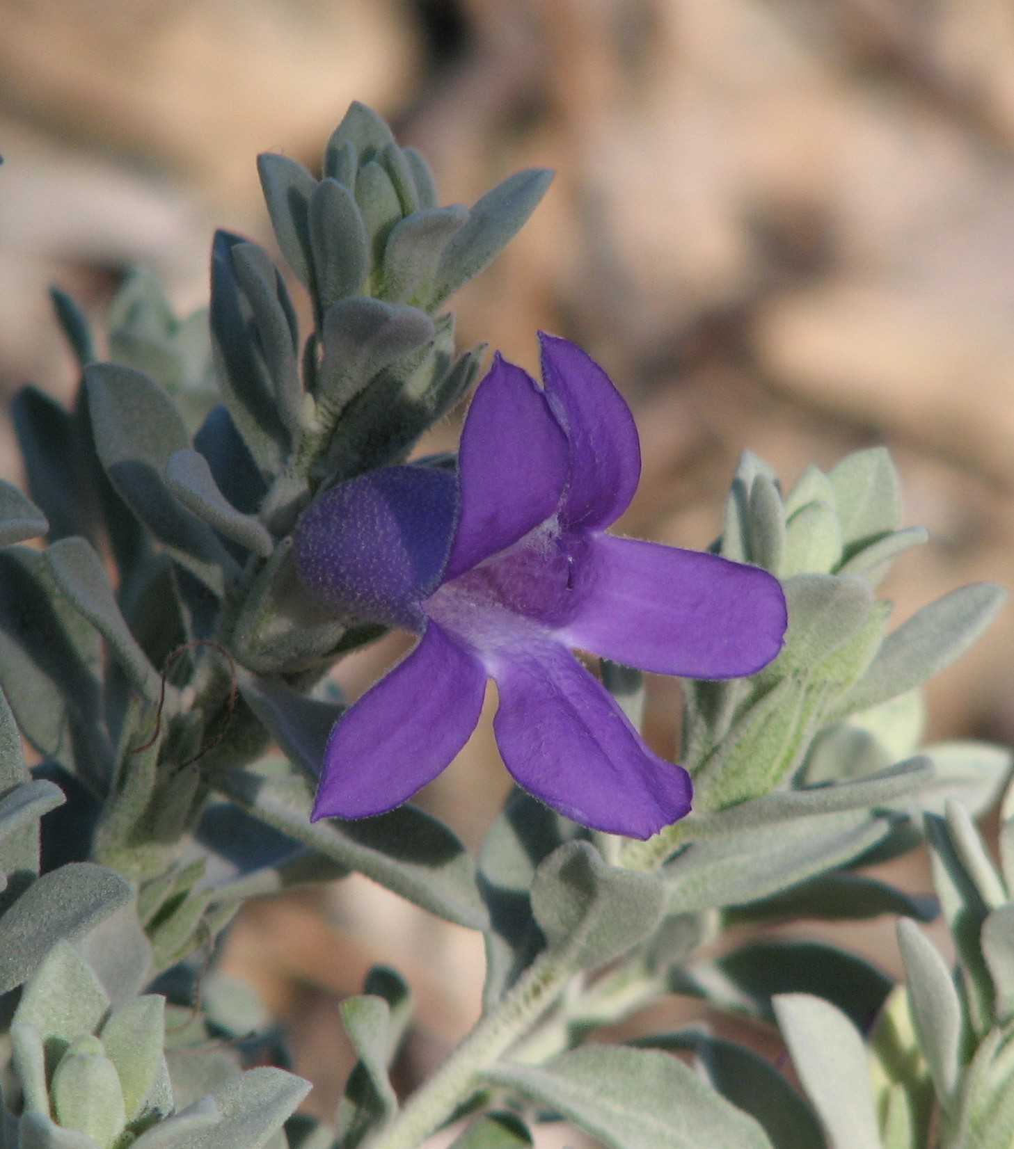 Eremophila hygrophana (grafted) Royal Botanic Gardens Cranbourne, Victoria, Australia